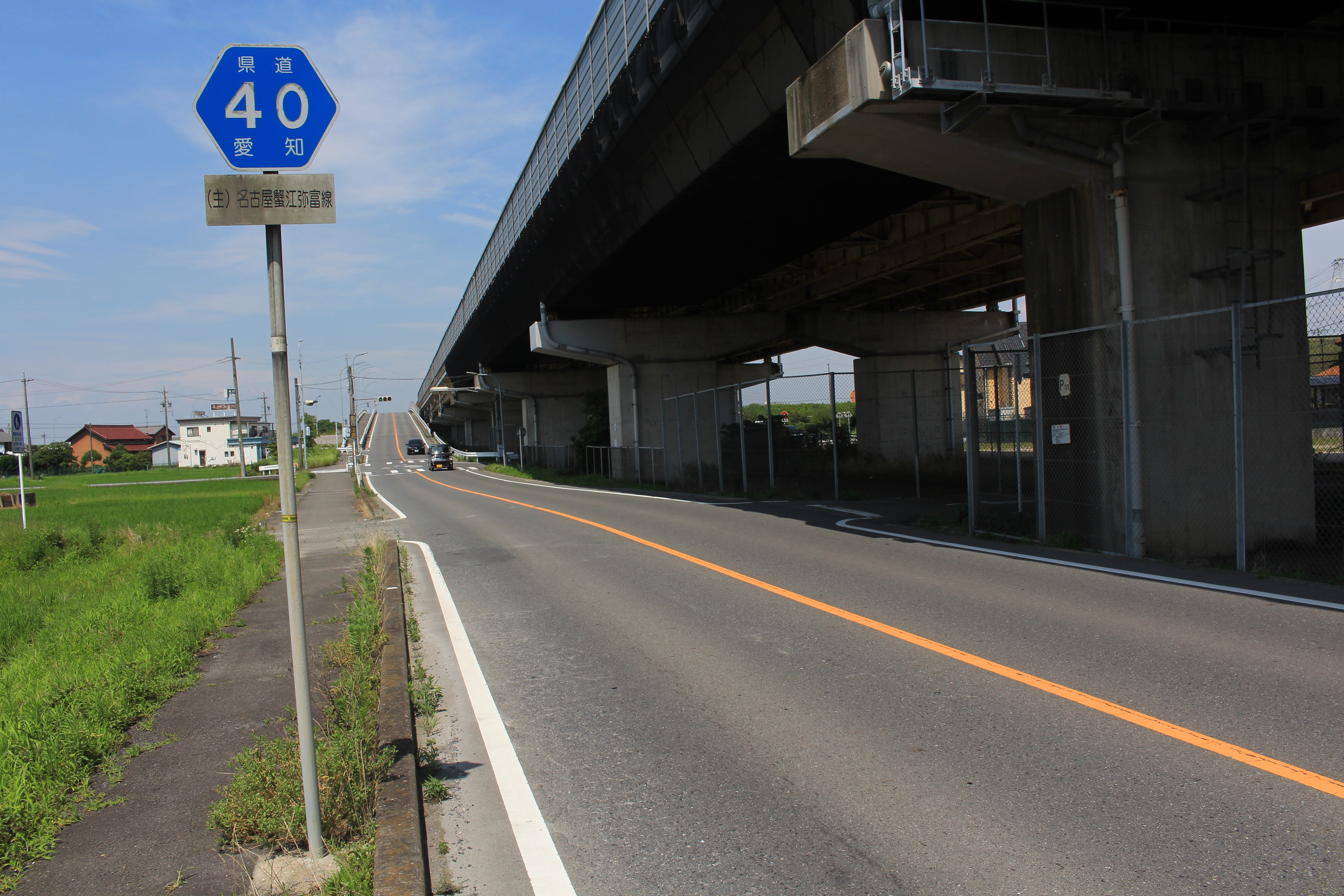 Aichi Prefectural Road Route 40 and Higashi-Meihan Expressway in Kabuto, Tsushima, Aichi prefecture, Japan.